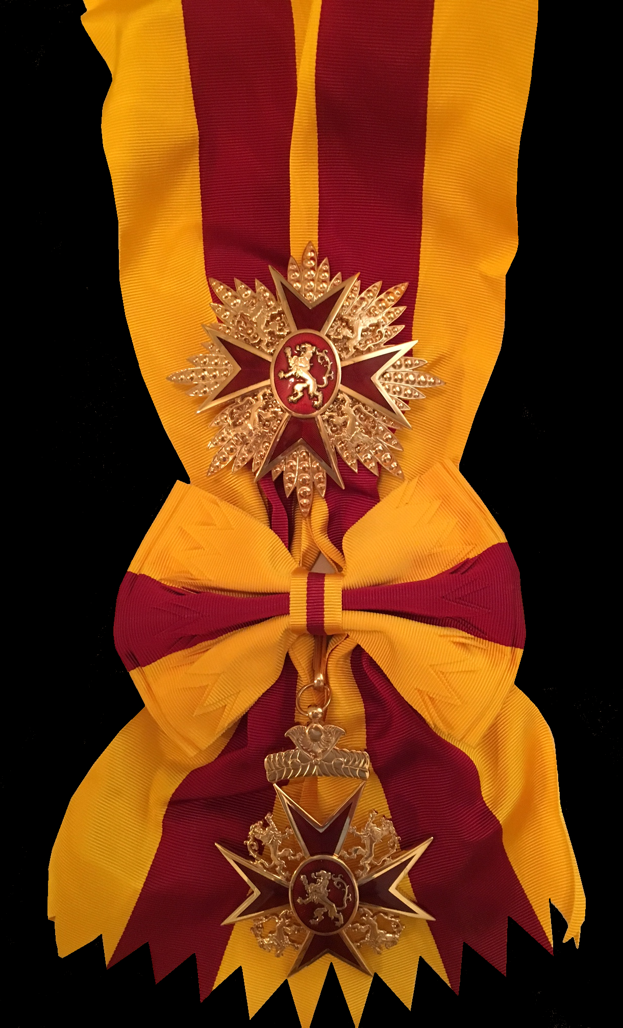 Grand Cross, Royal Order of the Lion of Godenu